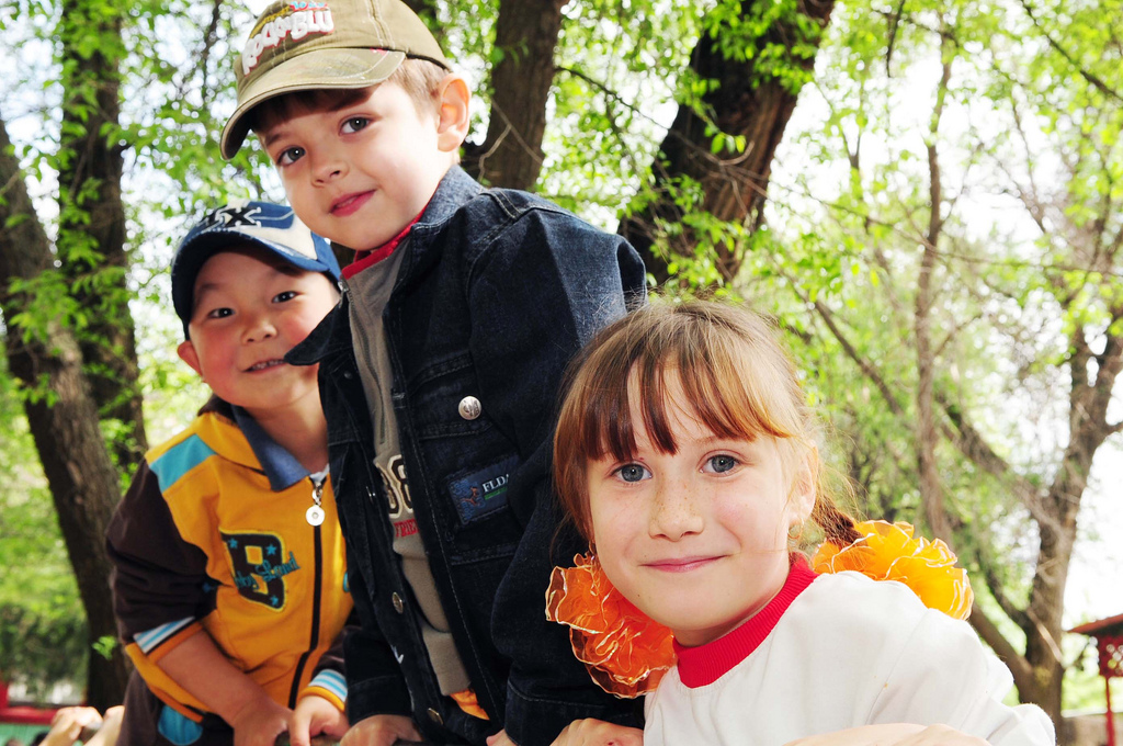 Leninskoye kindergartners pose for a picture on the playground during a visit to the school April 30, 2010. During the humanitarian assistance visit, Airmen from the Transit Center at Manas, Kyrgyzstan toured the facility, donated non-perishable food items, and played with the children. (U.S. Air Force photo/ Senior Airman Nichelle Anderson/ released)